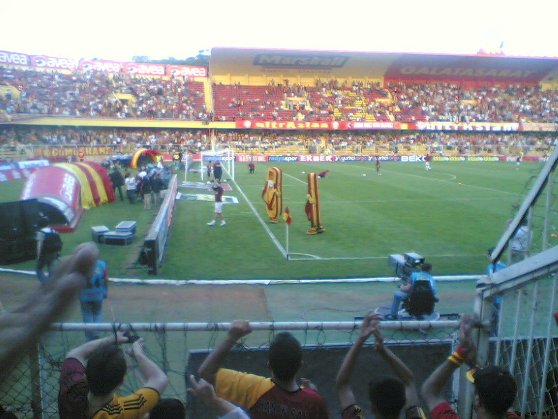 Champions League 2006-07 preliminar match between Galatasaray and Boleslav, in the Ali Sami Yen.